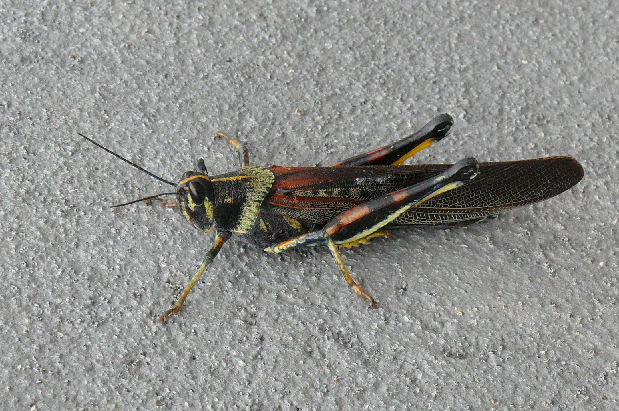 Schistocerca melanocera